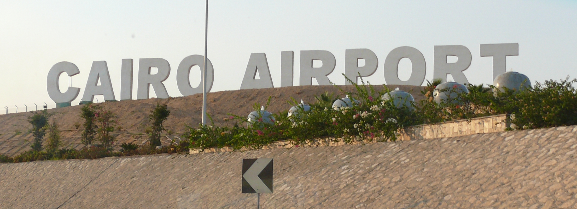 Entrance to Cairo International Airport.